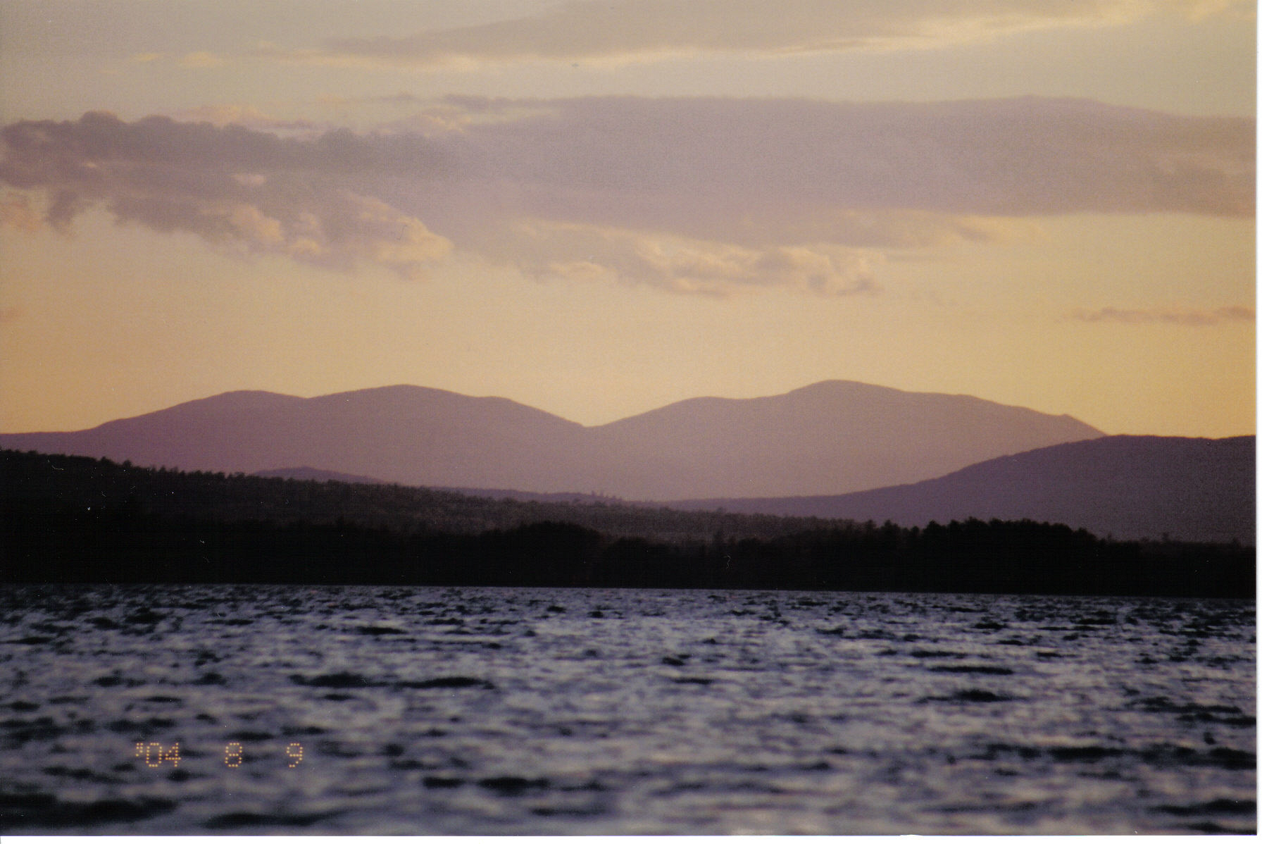 An evening view of Whitecap- the middle peak in the distance